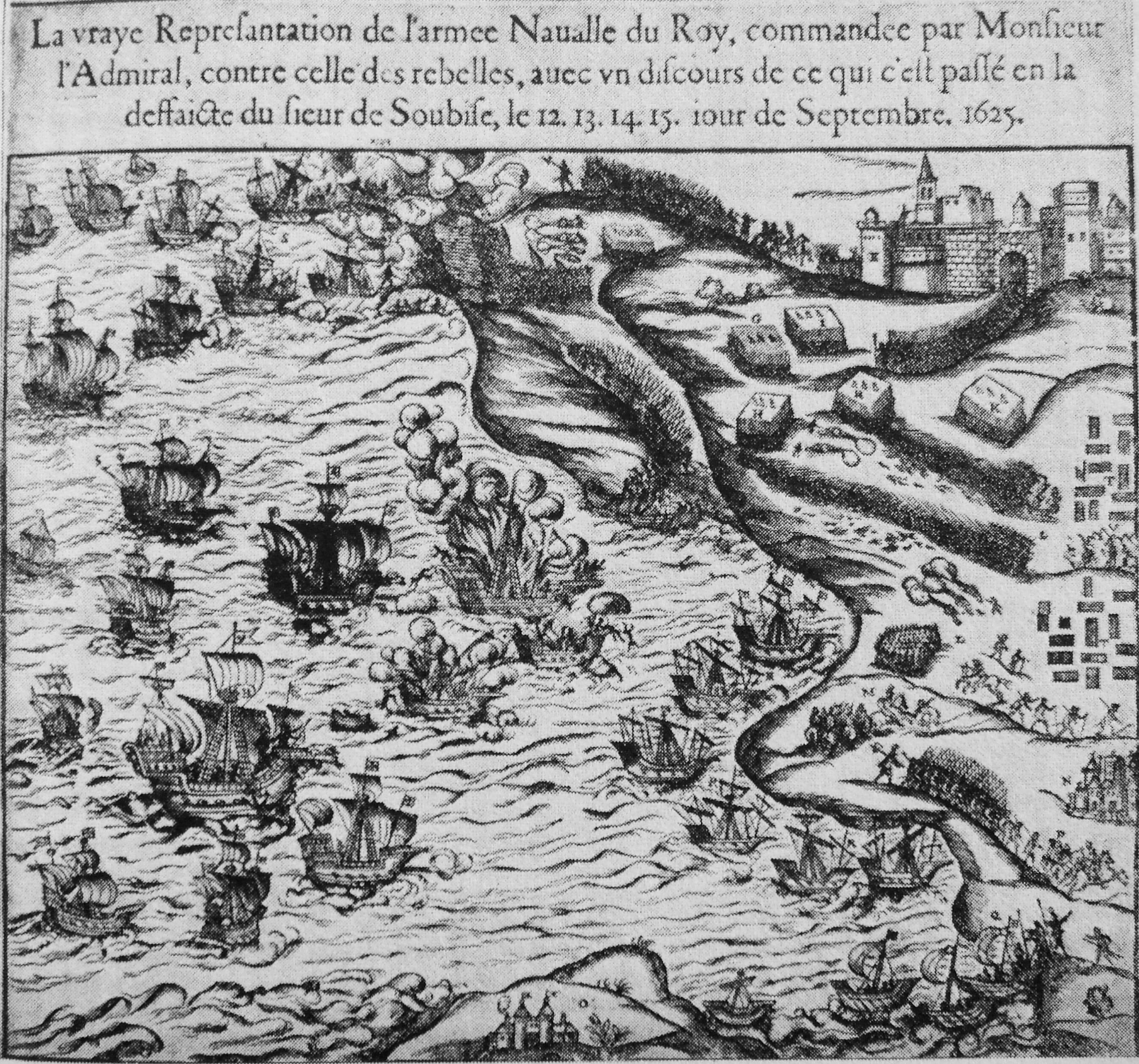 Soubise_12_15_Septembre_1625